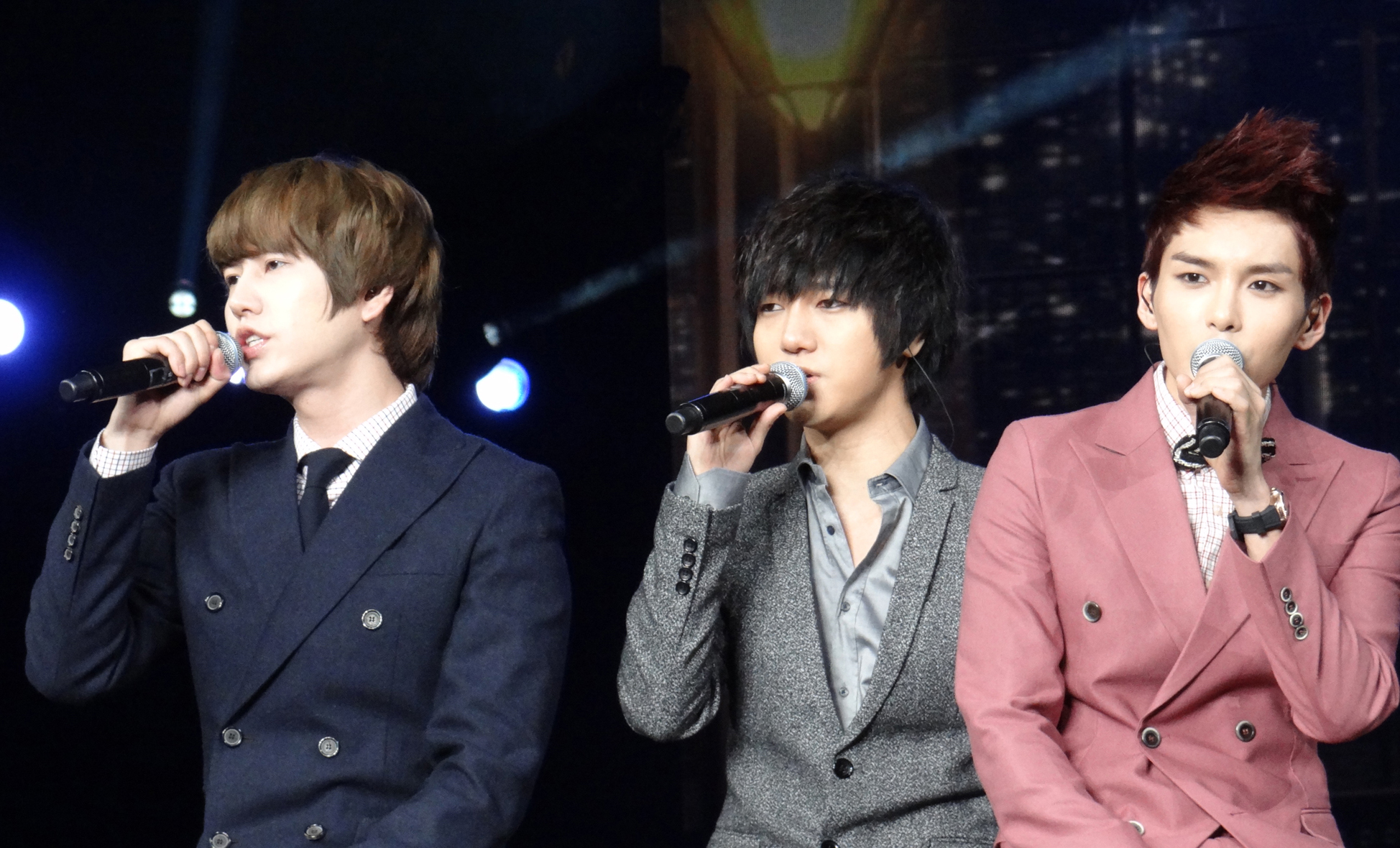 Super Junior K.R.Y. at SMTown Live NY